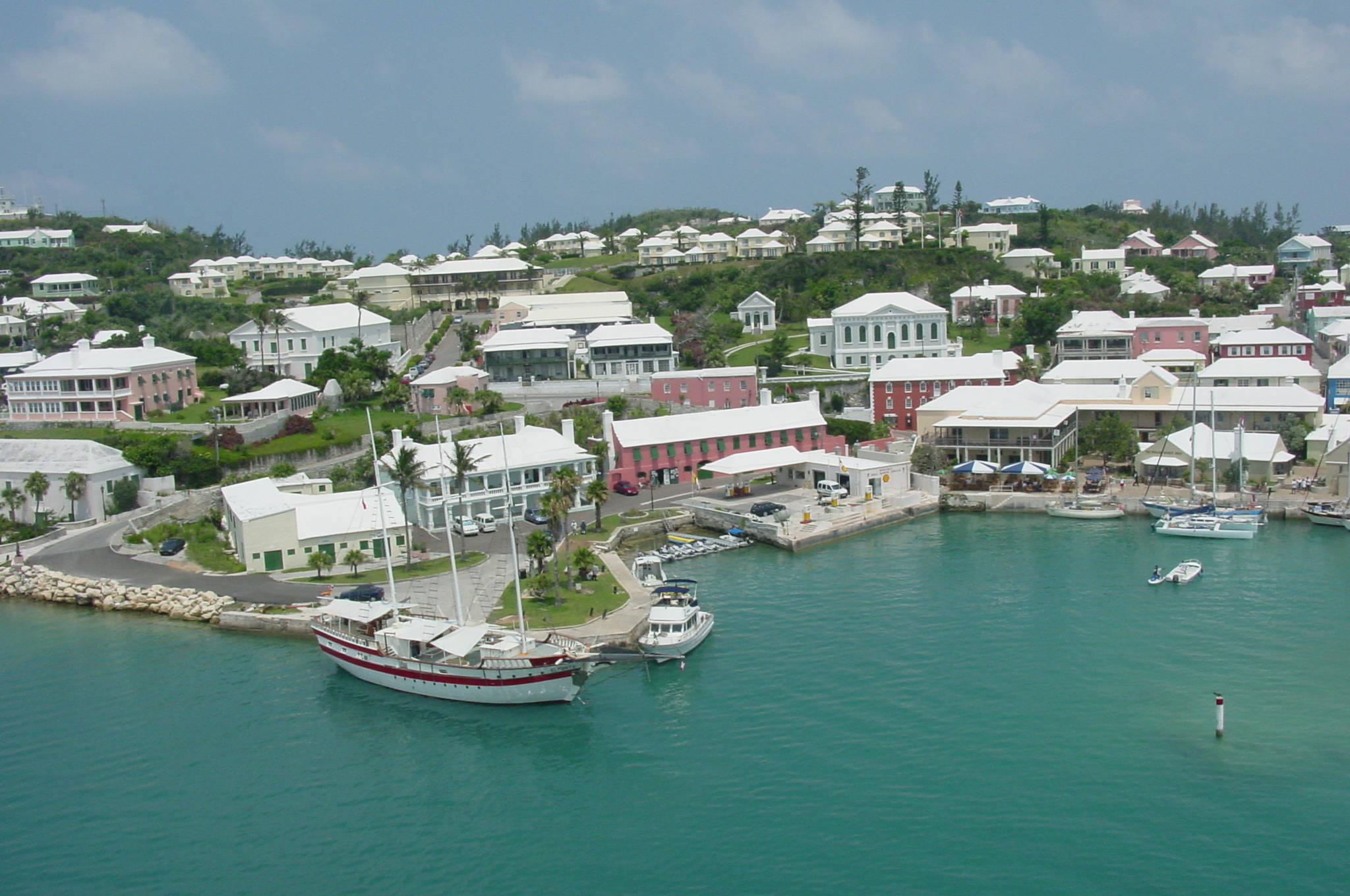 A view of St. George's, Bermuda from the Norwegian Majesty cruise ship leaving the island.